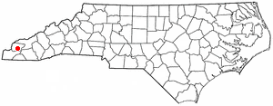 Category:North Carolina Dot Maps